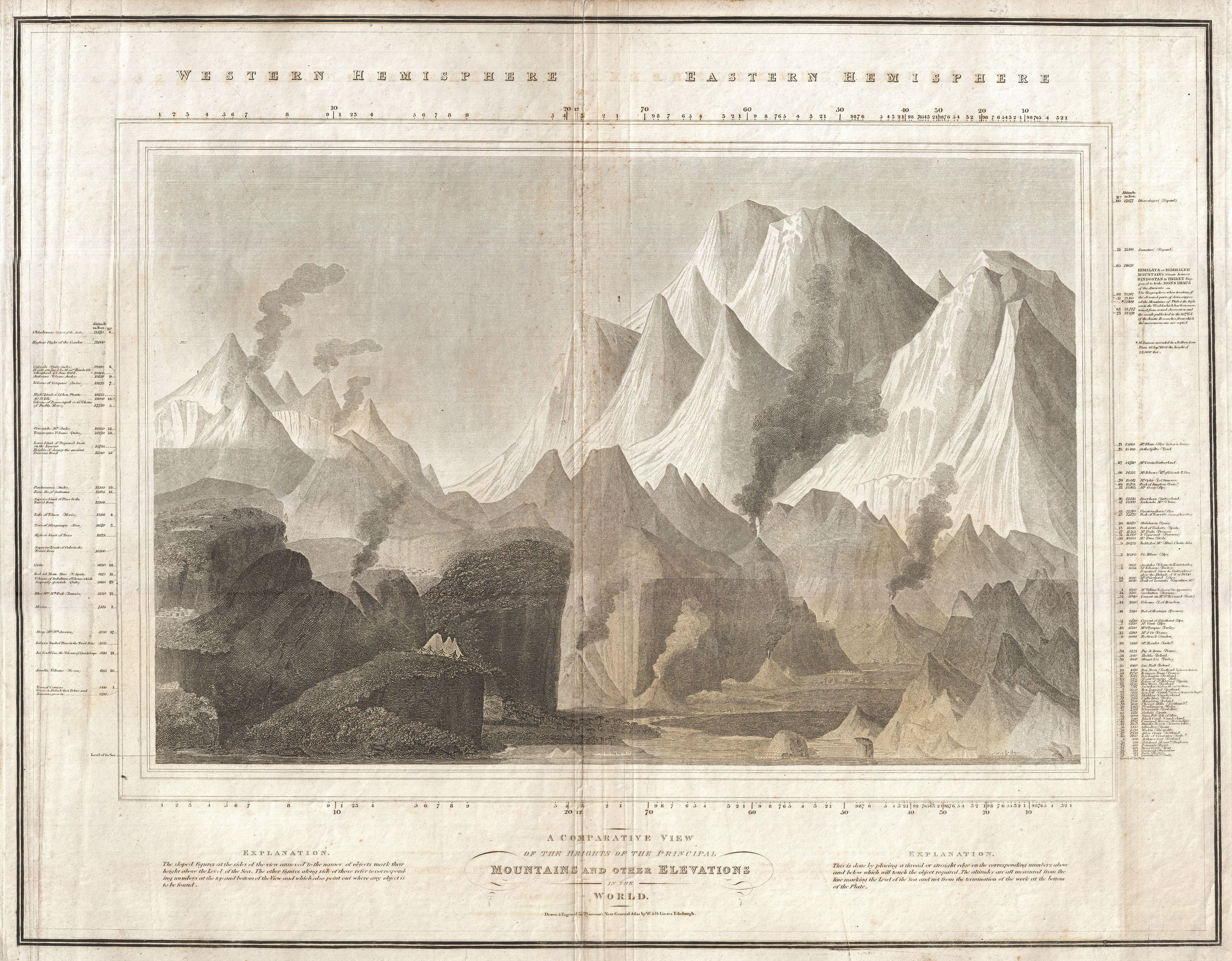 This is one of the earliest and most interesting takes on the comparative heights of principal mountains theme. Comparative mountains charts first appeared in the late 18th and early 19th century. Initially these charts focused on Europe or even signal countries, but by the early 19th century the explorations of the world's great peaks had reached a point where such a chart could be composed on a global level. John Thompson, the preeminent Scottish cartographer of the period, introduced this chart, one of the first and most interesting of the genre. Covering both the eastern and western hemispheres, this chart shows not only the heights of mountains, but also compares them to important buildings, cities, vegetation limits, and even fauna. Thompson divides his map in to the western hemisphere, on the left, and the eastern hemisphere on the right. In the Western Hemisphere, he identifies the Ecuadorian peak of Chimborazo at the highest mountains - the great Chilean peaks had not yet been discovered. Just below the summit of Chimborazo, a tiny speck represents a rare Andean Condor in flight with a highest altitude of 21,000 feet. About halfway down on the left side of Chimborazo, another little speck, this time in the shape of a man, indicated the highest elevation attained by the naturalist Alexander von Humboldt. Also identified are various high evolution towns and cities including Mexico City, Lake Toluca, Quito, and Caracas, among others. On the right hand side of Thompson's map chart, the behemoths of the Eastern Hemisphere dwarf the mountains of the west. Here, Nepal's Dhaulagiri, 27,677 feet, is identified as the world's greatest mountain. Everest and many of the other great Himalayan peaks had not yet been discovered - today we know that Dhaulagiri, though certainly a mighty peak, is only 8th. Engraved by the firm of W. and D. Lizars for John Thomson's 1817 edition of Thomson's New General Atlas .